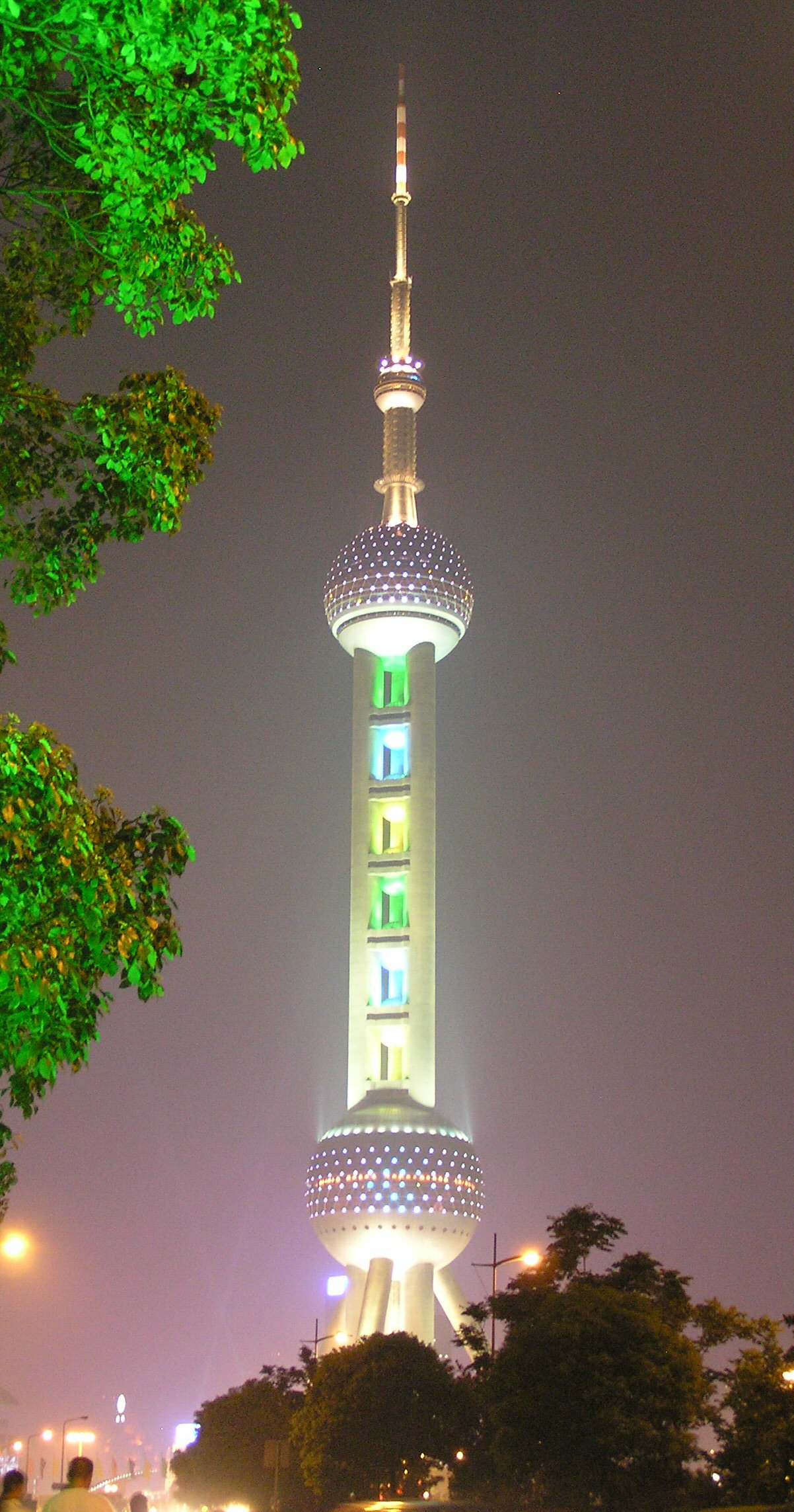 Oriental Pearl at night (from the base of Jingmao Tower) (Shanghai, China) Author: Mr. Tickle Date: 07/28, 2005